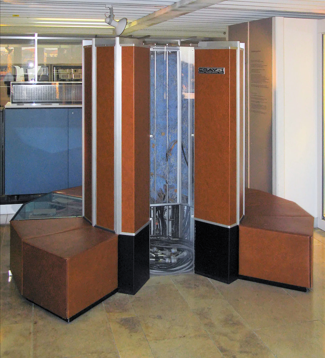 Ein CRAY-1, aufgenommen im Deutschen Museum, München.